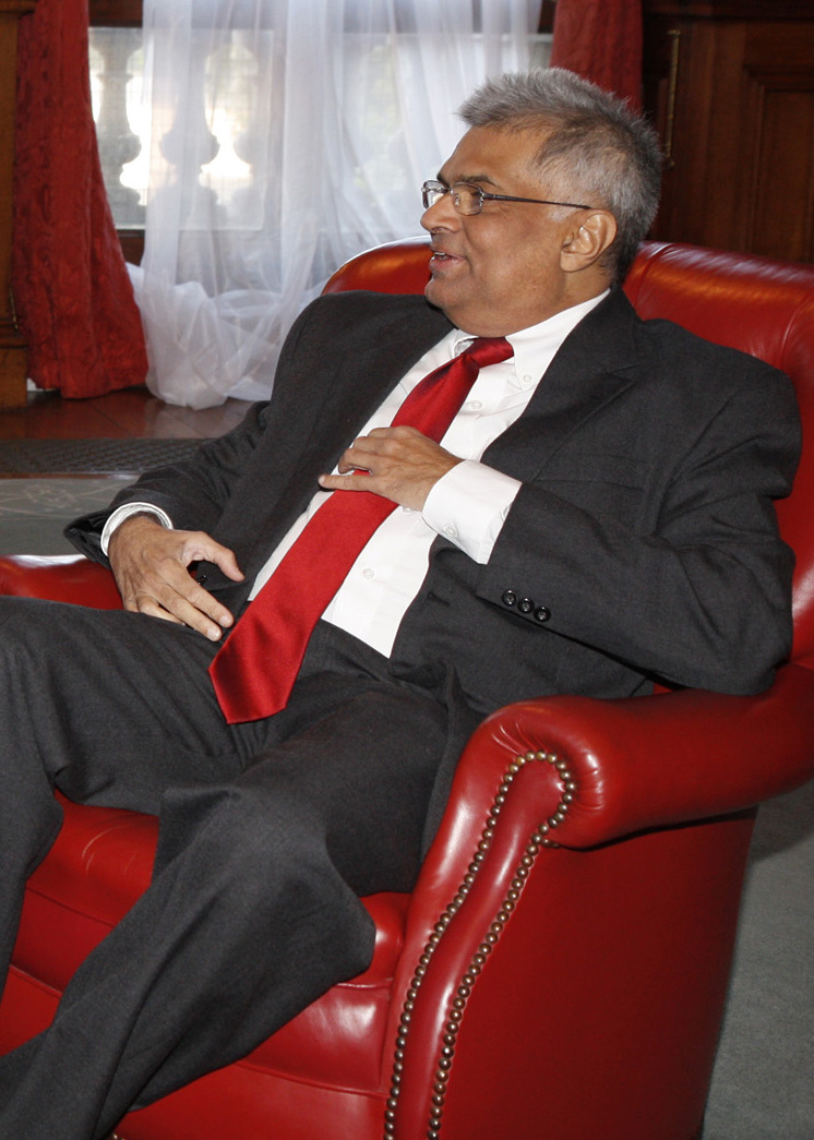 Photograph of Hon.Ranil Wickramasingha.